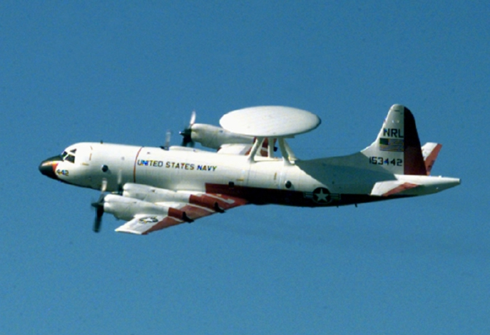 A U.S. Navy NP-3D Orion (BuNo 153442) of Scientific Development Squadron VXS-1, called the "Airborne Surveillance Command and Control research aircraft". It is equipped with a AN/APS-145 radar, JTIDS Class II and an Infrared Radiation Detection System (IRDS) to support the U.S. Navy's future AEW/CEC programs.